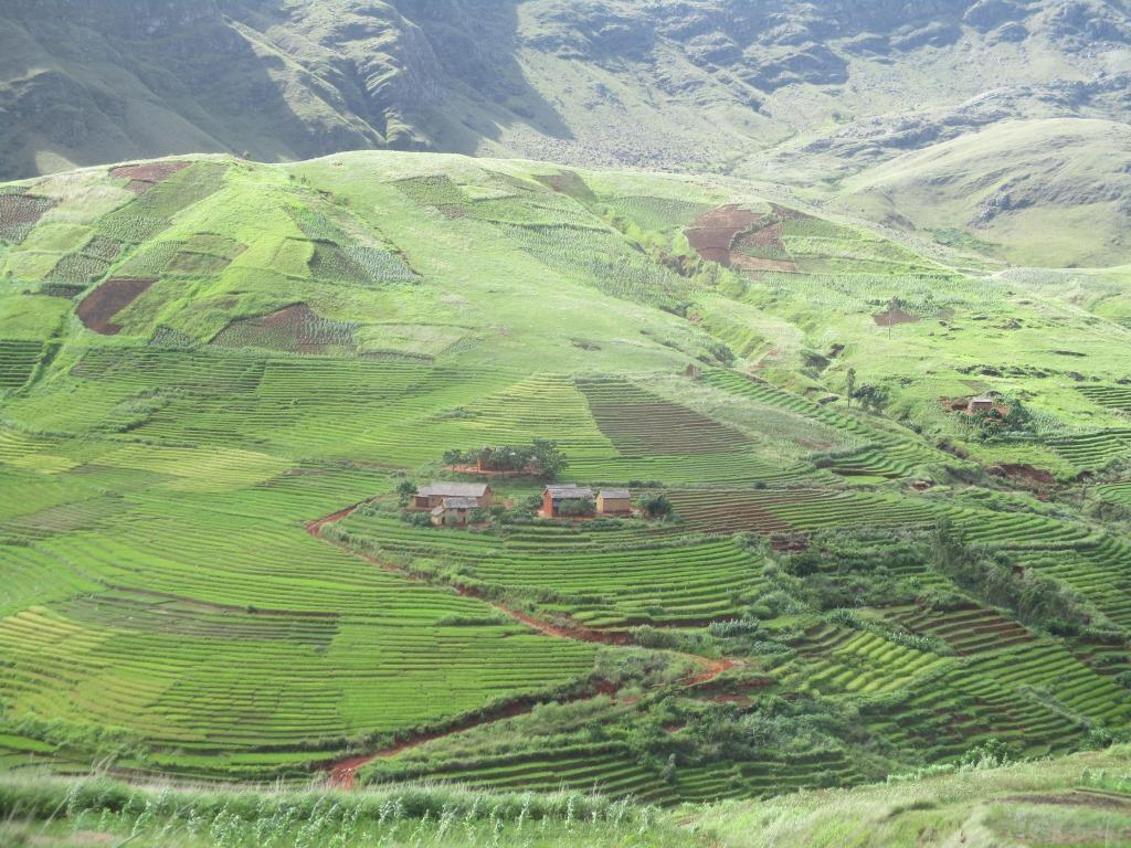 They cultivate only for live; they are happy; no power no traffic jam no connection This is an image with the theme "Play" from: Madagascar